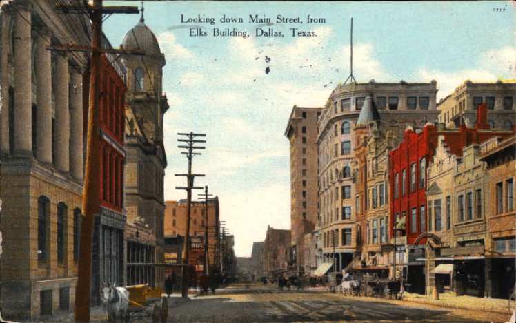 Main Street, Dallas, Texas